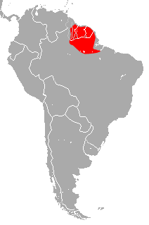 Amazonian Sac-winged Bat (Saccopteryx gymnura) range